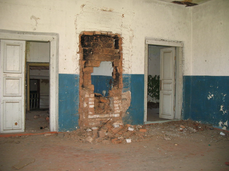 Plabanija in Daŭhinaŭ, Biełaruś